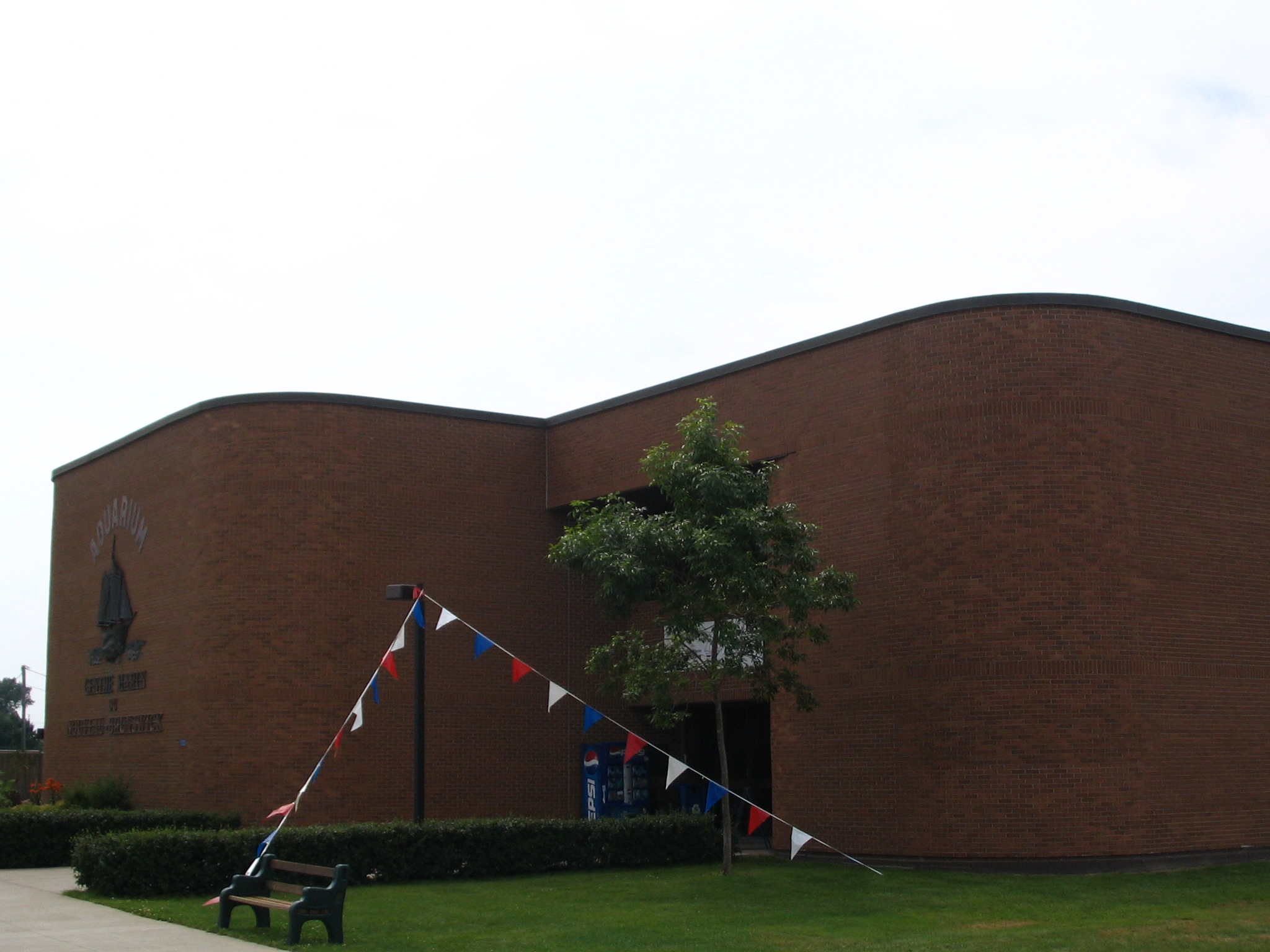 Front view of the aquarium of Shippagan, New Brunswick, Canada